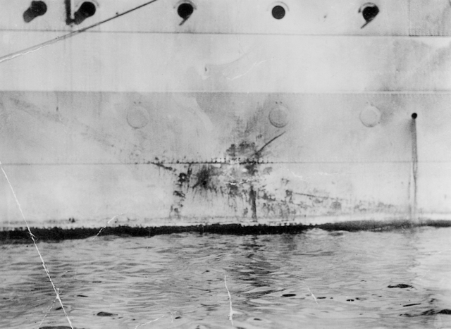 Imprint of a Japanese kamikaze aircraft on the side of HMS Sussex. The aircraft hit the side of the HMS Sussex and fell into the ocean without damaging the ship. Second World War, 1939-1945.